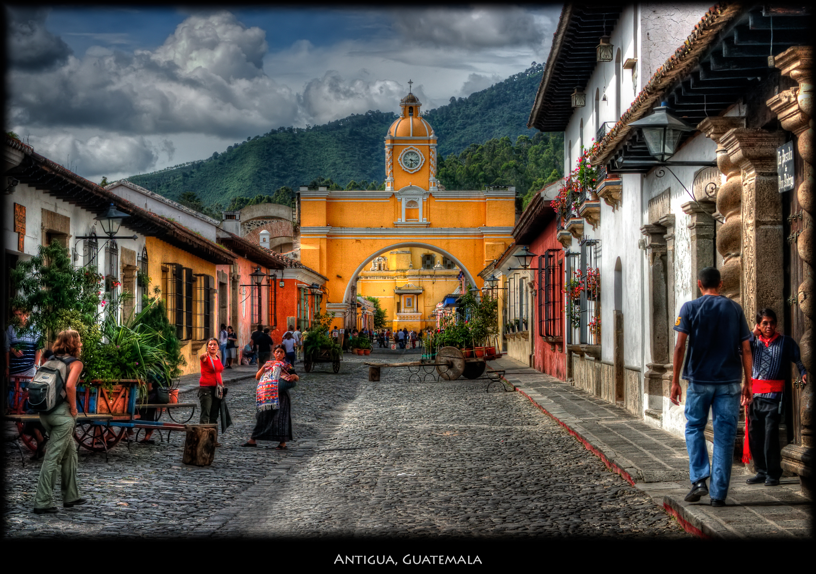 Nice cobblestone street in Antigua, Guatemala. Nicer large. See my Tikal shots. ISO 100, 56mm, f8, 1/250. Tonemapped in Photomatix Details Enhancer. Nik Pro Contrast, Tonal Contrast and Viveza to brighten church, darken coblestone and make the blue bluer in the sky.